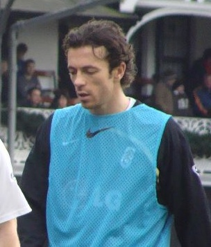 Andrew Johnson, Simon Davies at Craven Cottage